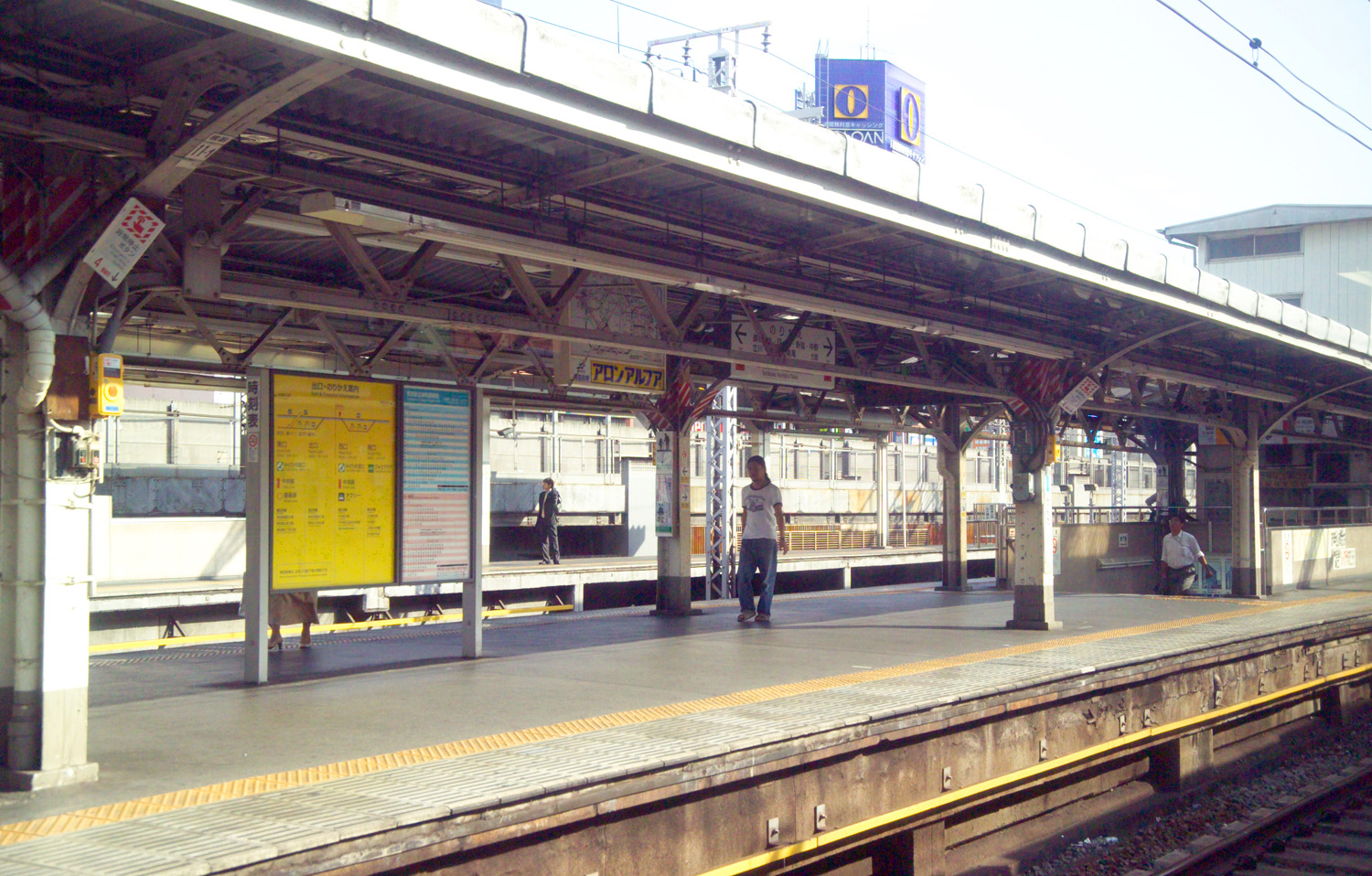 JR East (East Japan Railway Company) Kanda Station, Tokyo, Japan. I took this photo and contribute my rights in the file to the public domain; individuals and organizations retain rights to images in it.